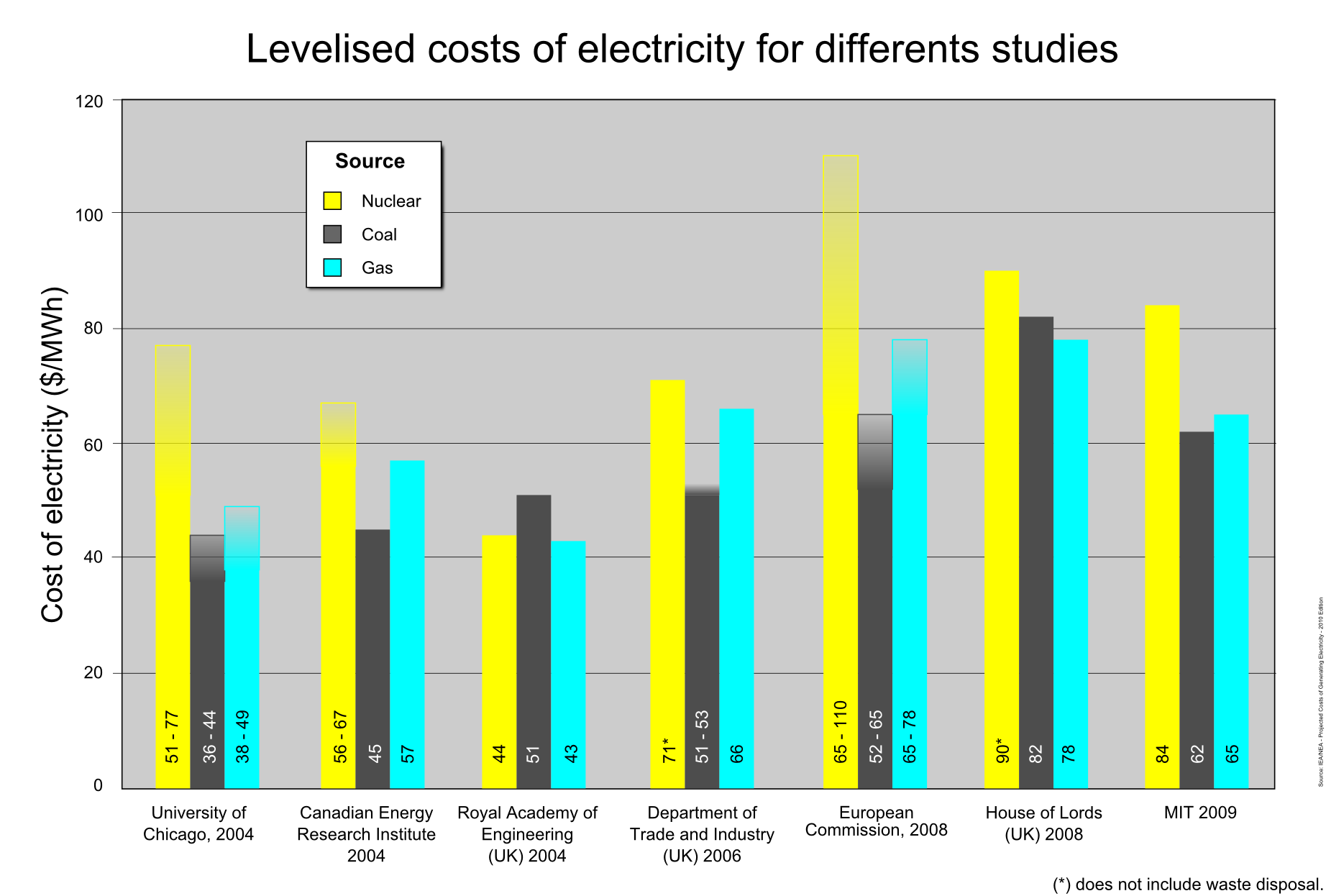 Electricity generating costs for different sources and for different studies